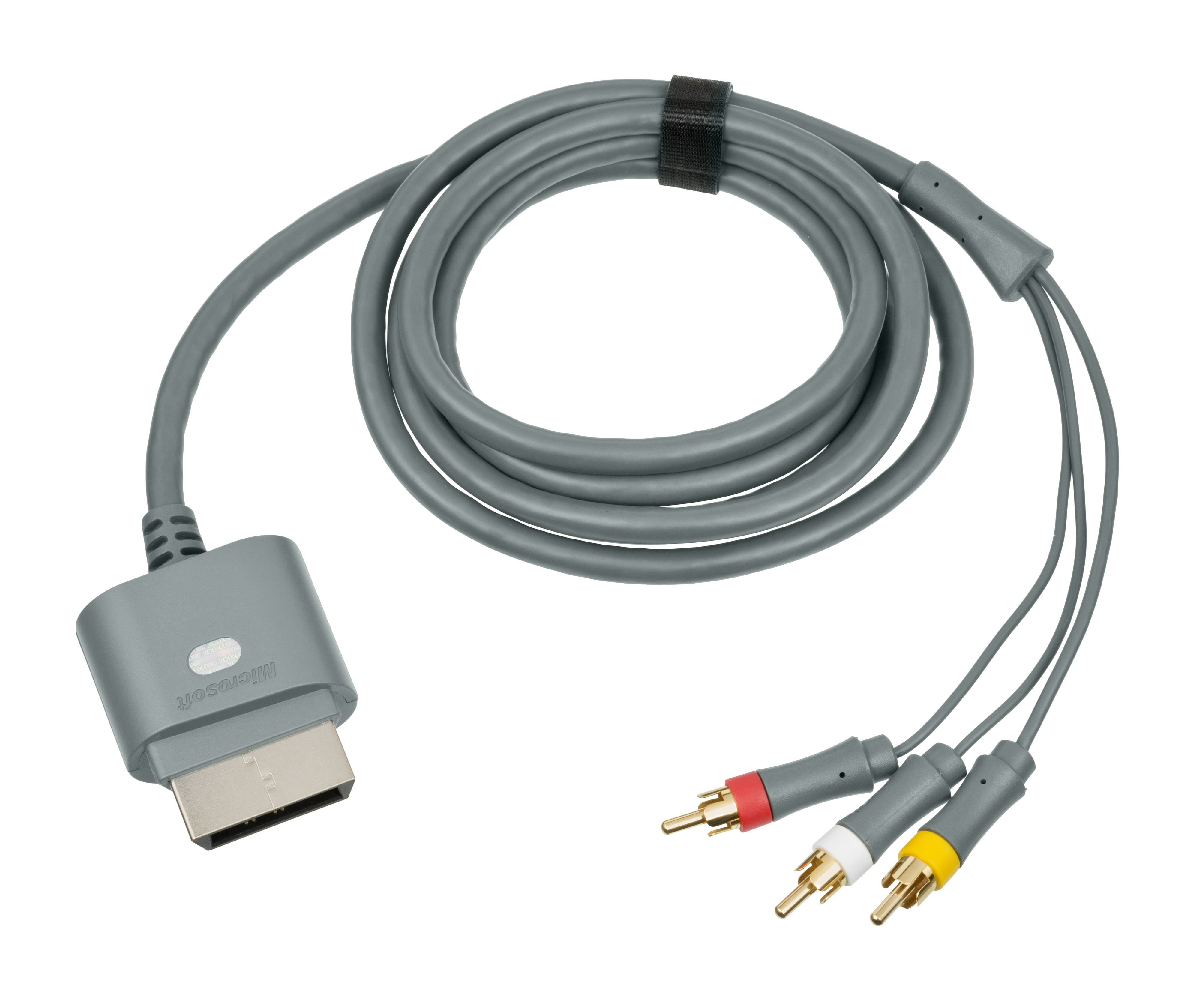 Xbox 360 standard AV cable pack offering composite video and stereo sound. One of the standard pack-in cables for the Xbox.